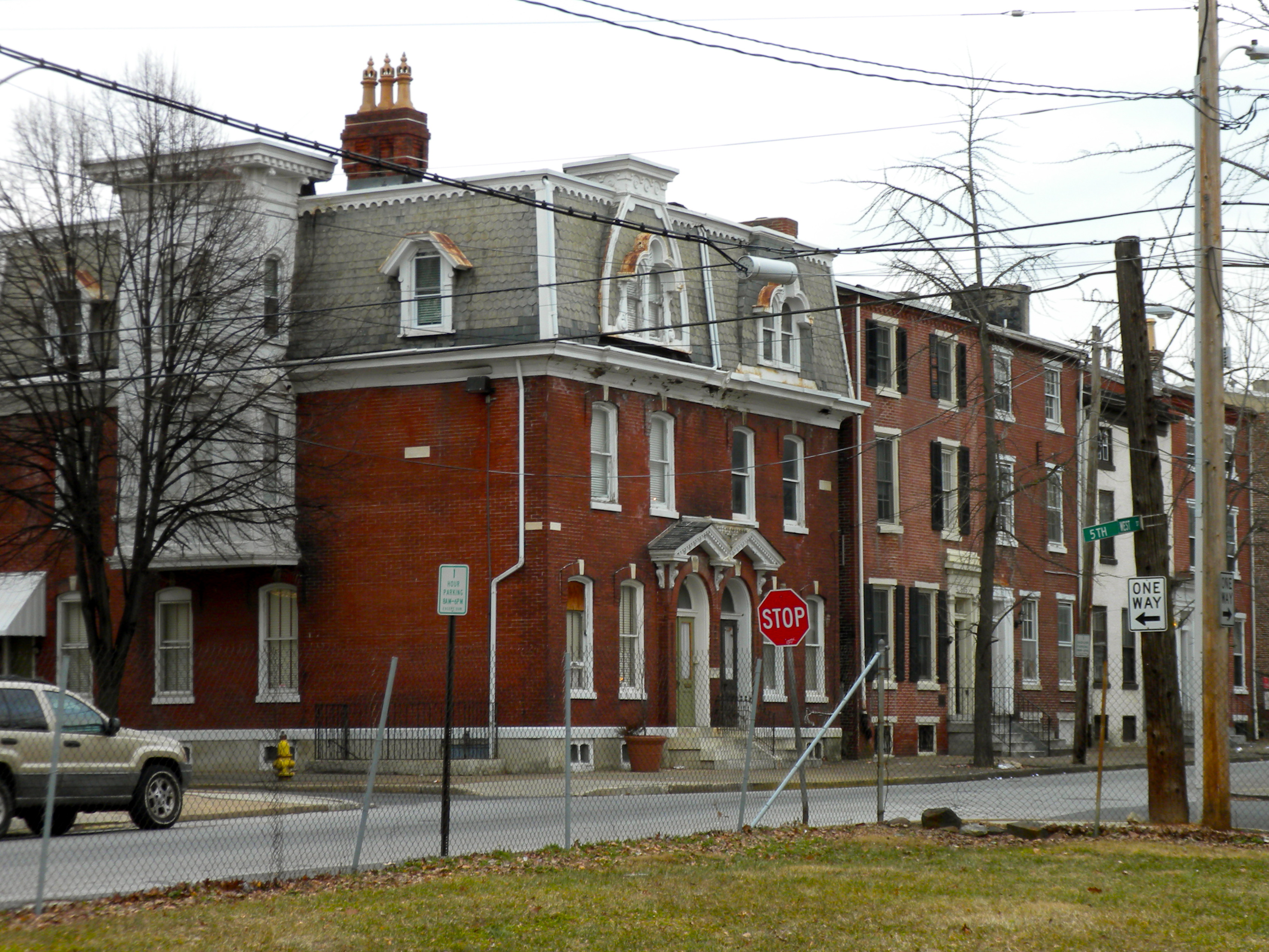 Building in the Quaker Hill Historical District in Wilmington, Delaware. This building is the first building directly north of the Quaker Meetinghouse. On the NRHP